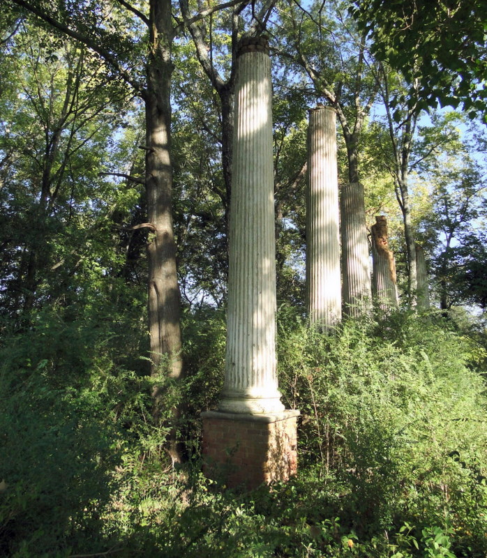 Remaining ruins of the Mt. Ida plantation house (also known as the Walker Reynolds House) near Sylacauga, Alabama